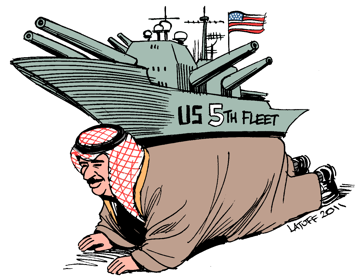 No Bahrain dictatorship equals No US 5th fleet in the Gulf